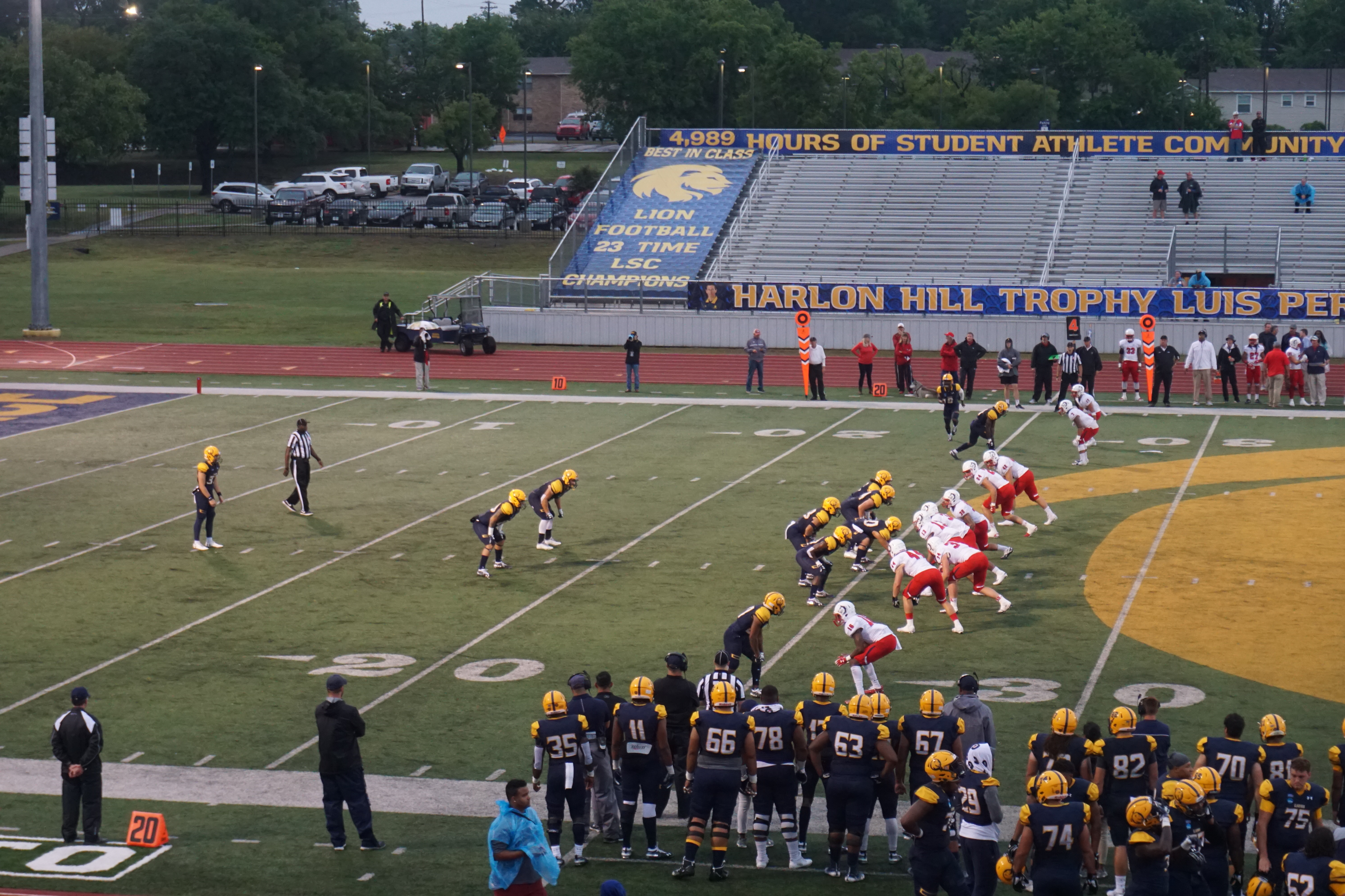 A&M–Commerce punting during the Colorado State–Pueblo ThunderWolves vs. Texas A&M–Commerce Lions football game at Memorial Stadium in Commerce, Texas (United States). Colorado State–Pueblo won 23–13.